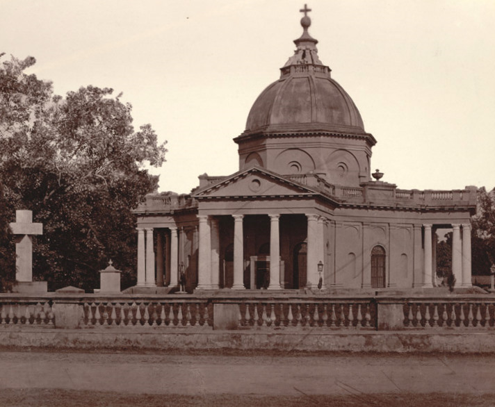 St. James' Church, Delhi, 1862, albumen print.